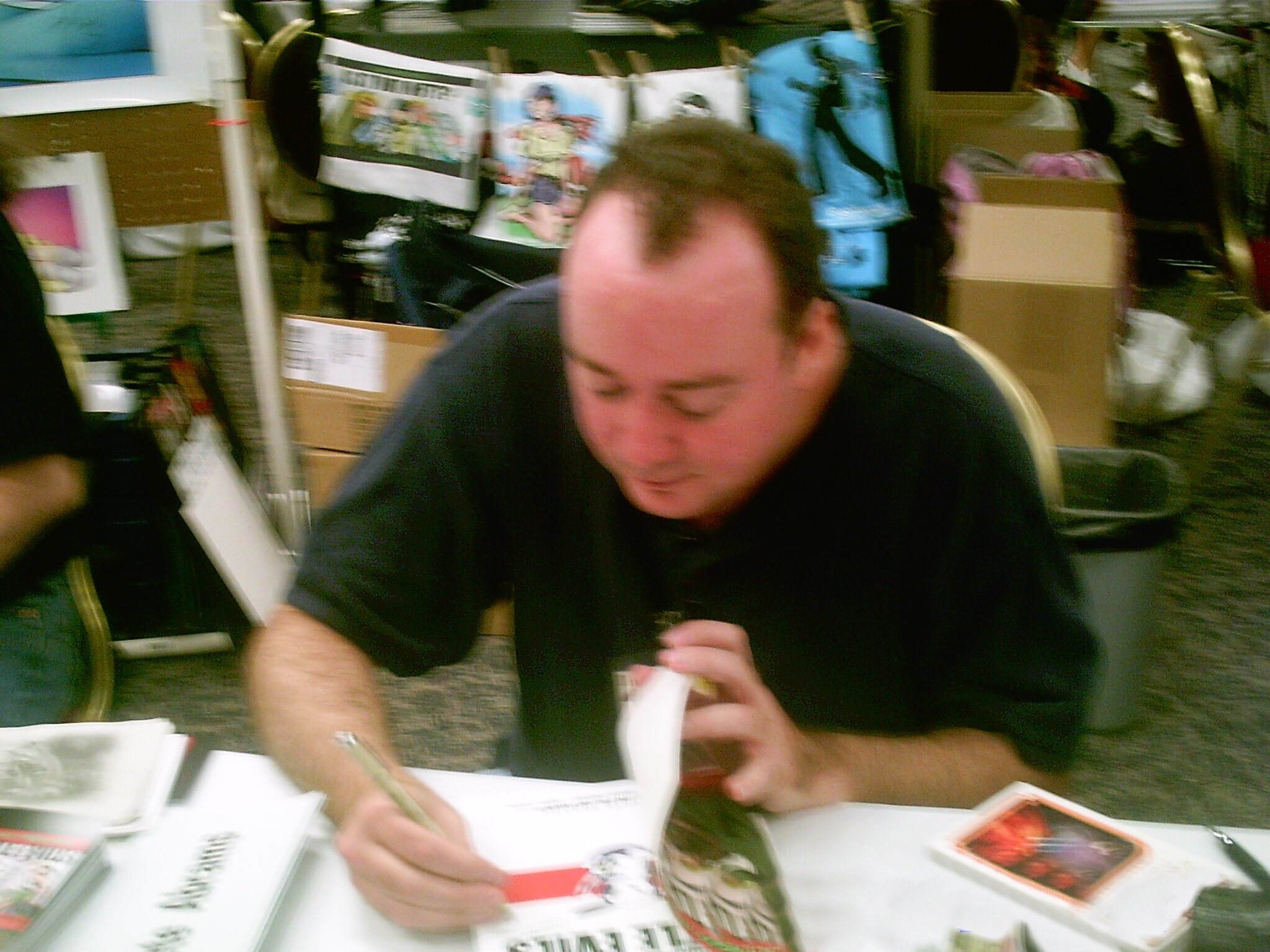 American web cartoonist Pete Abrams of "Sluggy Freelance", at Dragon*Con in 2007.